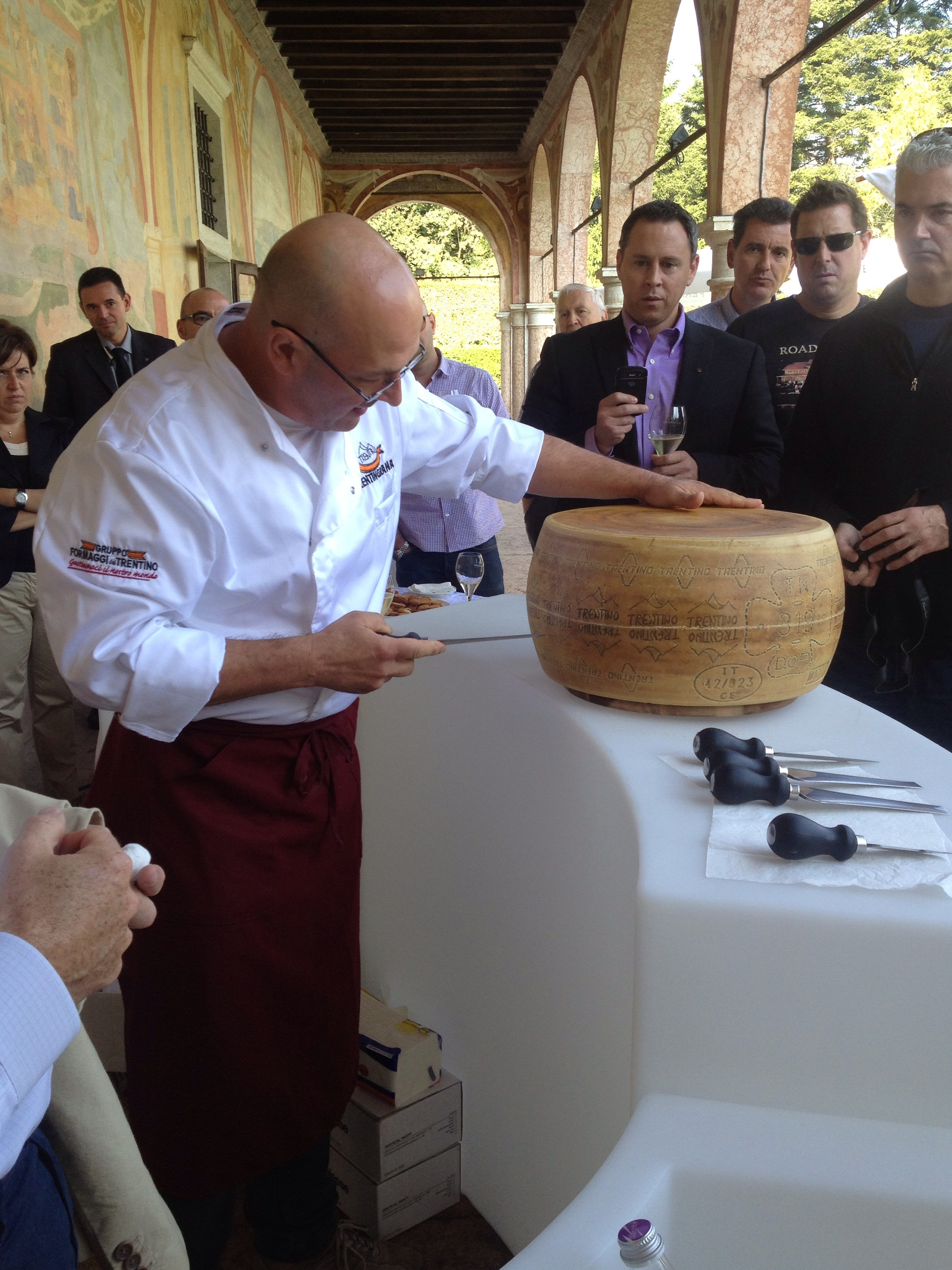 It ain't easy.